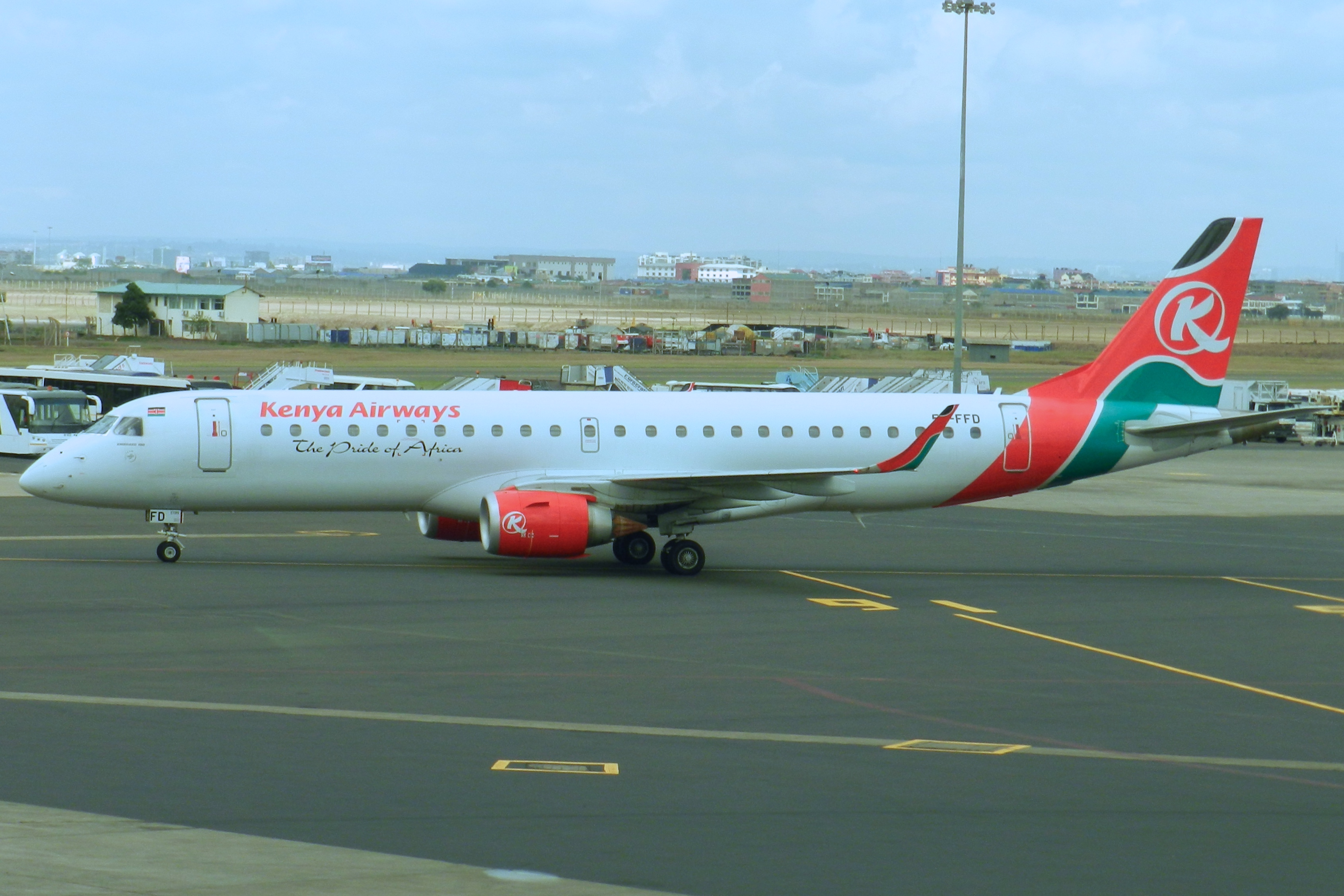 Kenya Airways ERJ E190 at Nairobi Airport